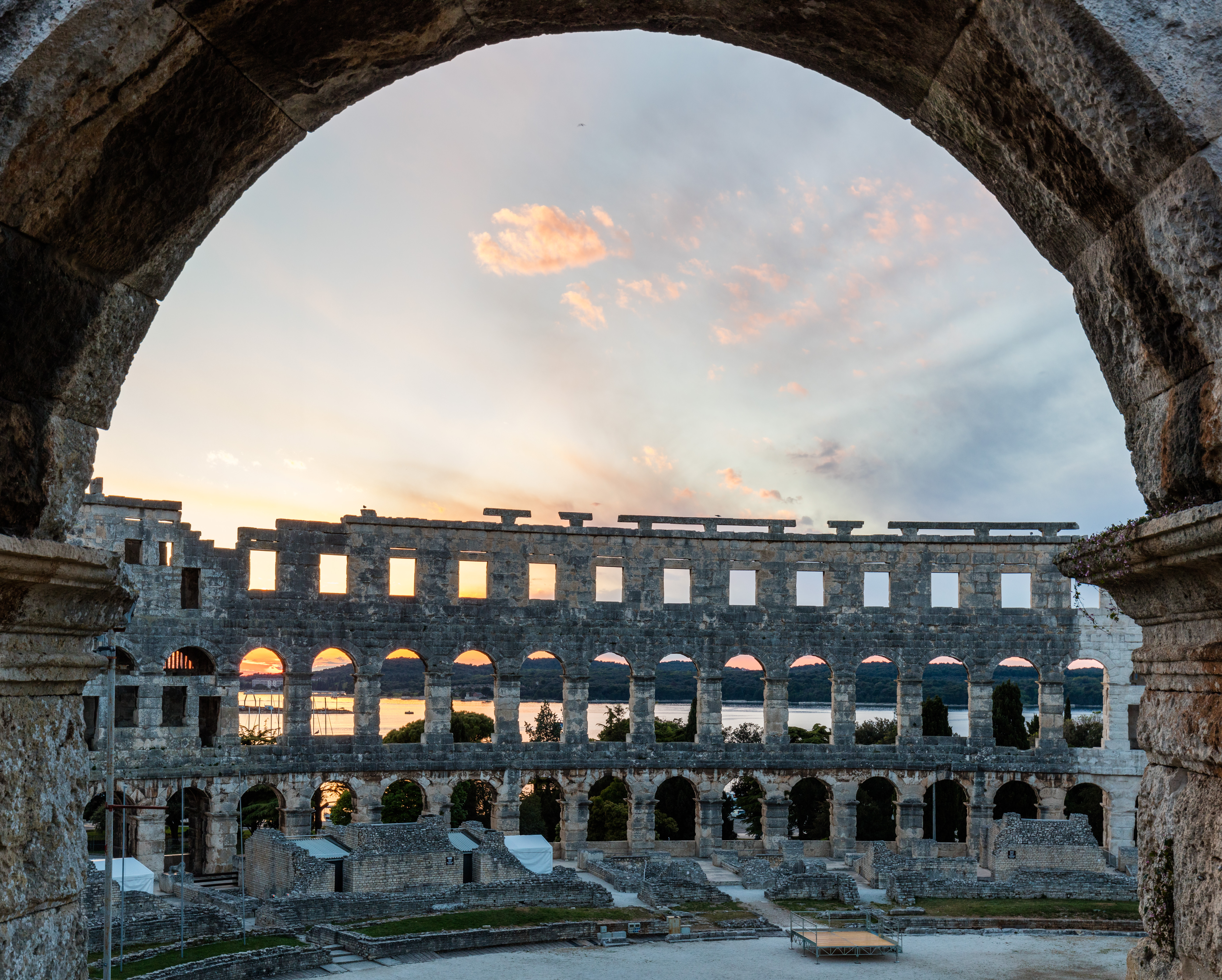 Pula amphitheatre, Croatia. This is a a photo of a cultural heritage in Croatia with ID: Z-863